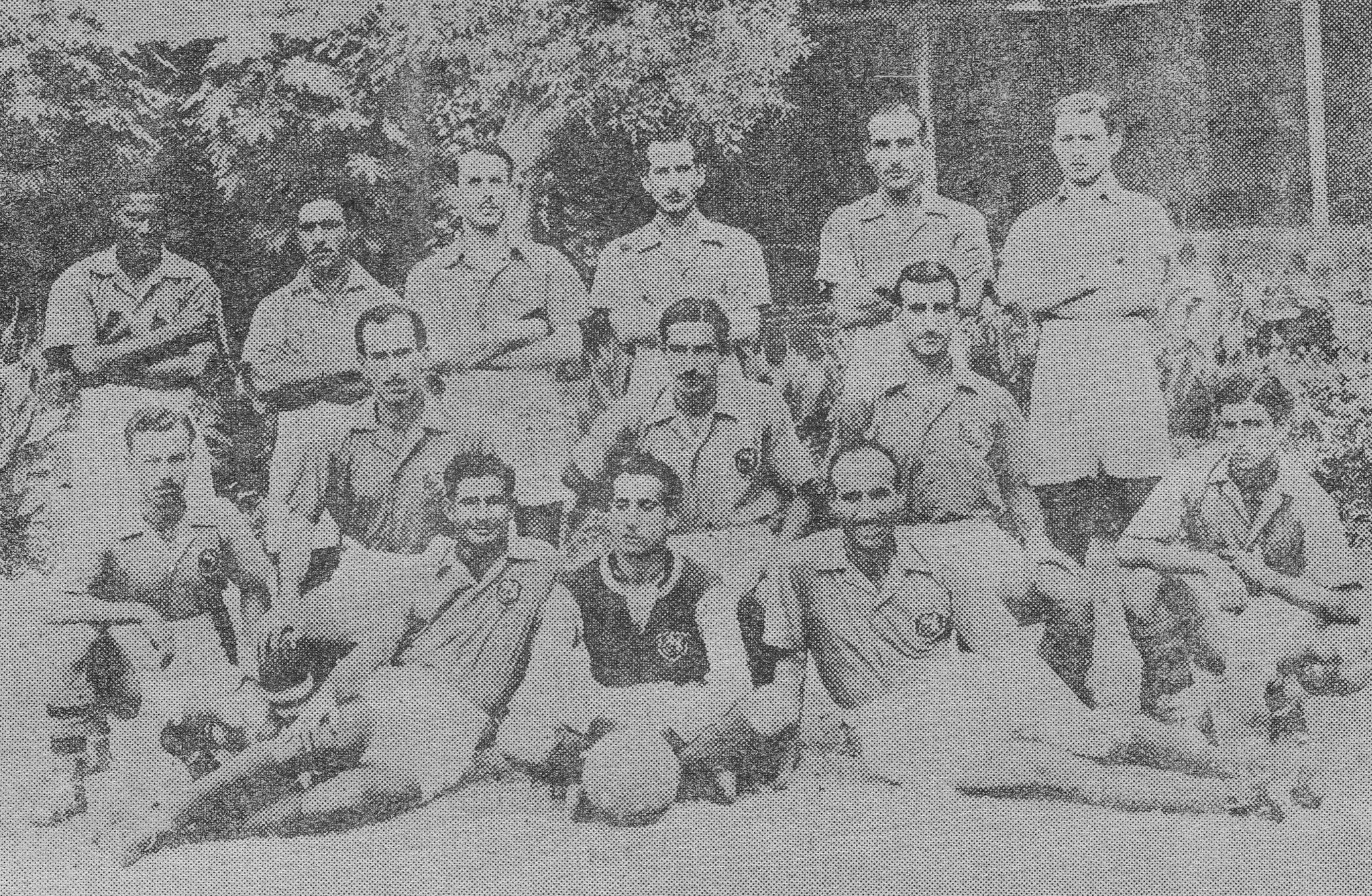 Players of Iraqi football team Haris Al-Maliki